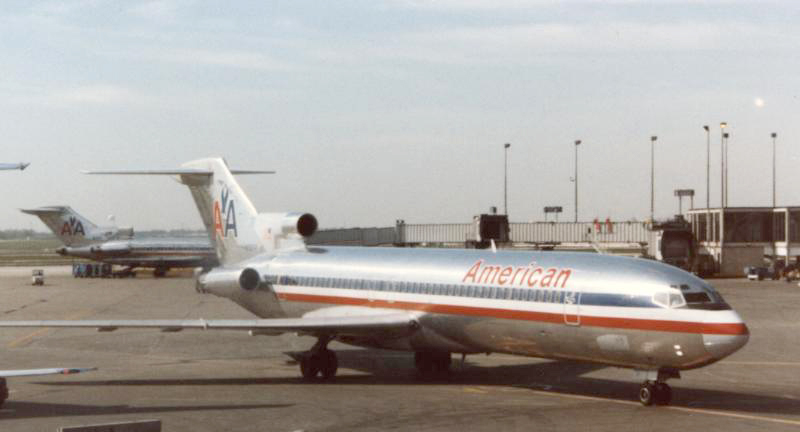 A Boeing 727-223 aircraft (N844AA) of American Airlines at Chicago O'Hare International Airport on 21 May 1989.